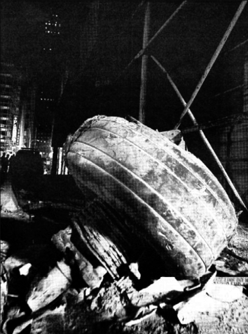 Landing gear of Flight 11 found at West and Rector Street